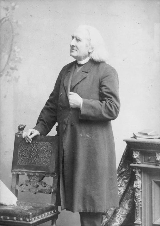 Franz Liszt ( Hungarian: Liszt Ferenc; pronounced , in